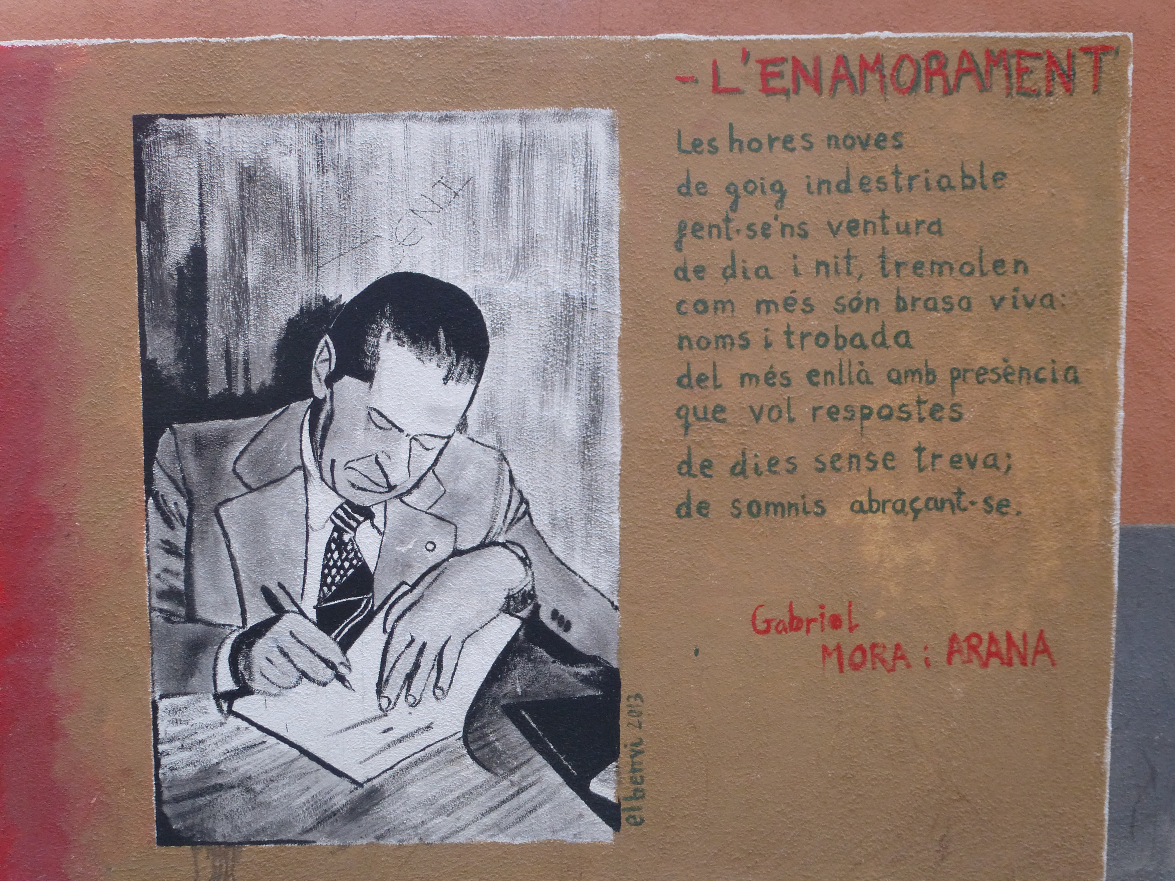 Mural amb la figura del poeta Gabriel Mora i Arana acompanyat d'un dels seus poemes